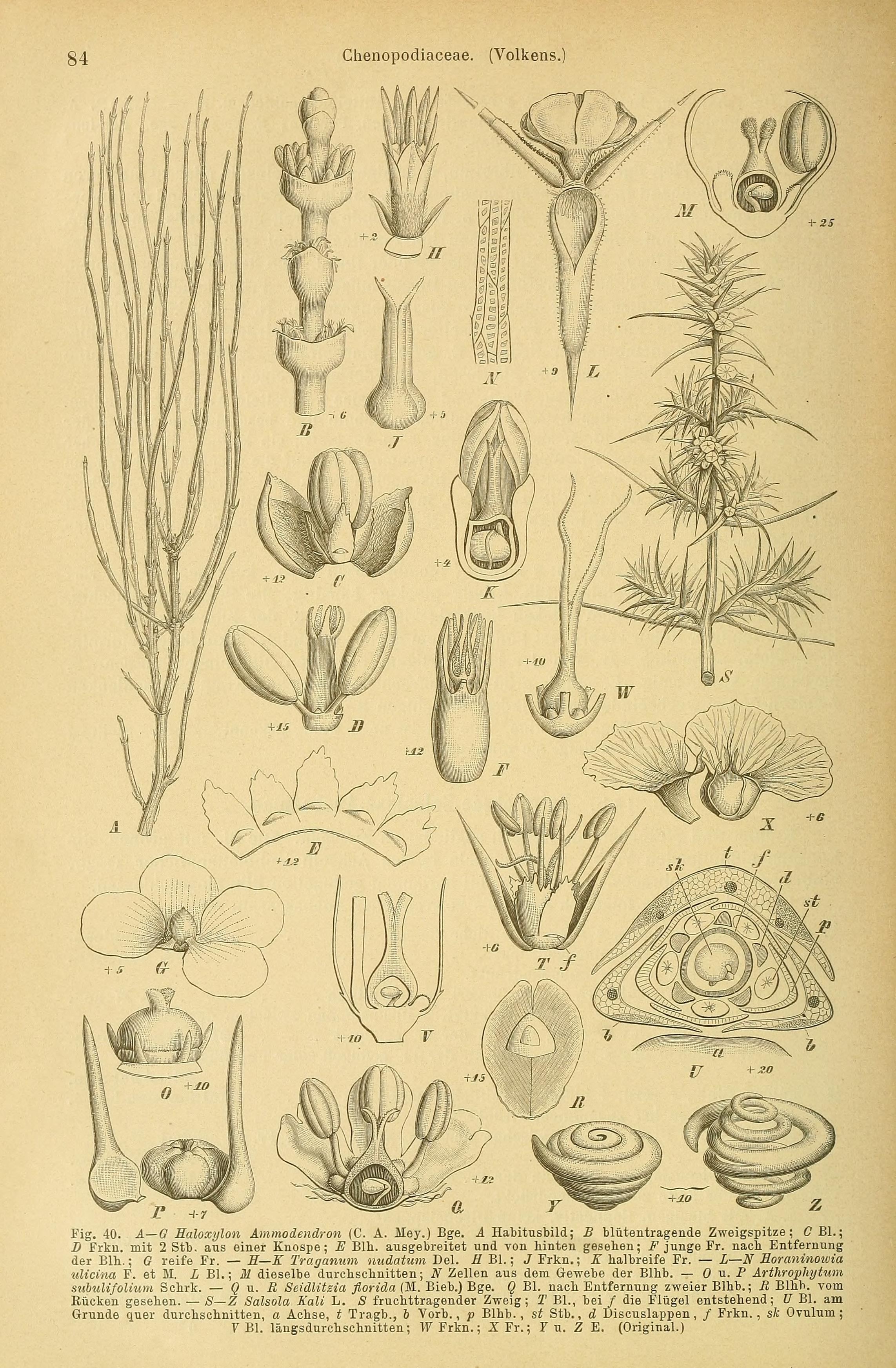 Title: Die Natürlichen Pflanzenfamilien : nebst ihren Gattungen und wichtigeren Arten, insbesondere den Nutzpflanzen Year: 1887-1909. (1880s) Authors: Engler, Adolf, 1844-1930; Prantl, K. (Karl), 1849-1893 Subjects: Plants; Plants, Useful Publisher: Leipzig : W. Engelmann Text Appearing Before Image: 84 Chenopodiaceae. (Volkens. Text Appearing After Image: Fig. 40. A—G Haloxylon Ammodendron (C. A. Mey.) Bge. A Habitnsbild; B blütentragende Zweigspitze; 0 Bl.; B Frku. mit 2 Stb. aus einer Knospe; E Blh. ausgebreitet und von hinten gesehen; i^ junge Fr. nach Entfernung der Blh.; Ö reife Fr. — H—K Traganwn tmdatwn Del. Ä Bl.; J Frkn.; K halbreife Fr. — L—N Eoraninoivia ulicina F. et M, i Bl.; M dieselbe durchschnitten; N Zellen aus dem Gewebe der Blhb. — 0 u. P Arthrophyhim subuUfoUum Schrk. — Q u. R Seidliteia floyida (M. Bieb.) Bge. Q Bl. nach Entfernung zweier Blhb.; B Blhb. vom Rücken gesehen. — S—Z Salsola Kali L. S fruchttragender Zweig; T Bl., bei / die Flügel entstehend; U Bl. am Grunde quer durchschnitten, a Achse, t Tragb., & "Vorb., p Blhb., st Stb., d Uiscuslappen, / Frkn., sk Ovulum; 7 Bl. längsdurchschnitten; V7 Frkn.; Z Fr.; Tu. Z E. (Original.)